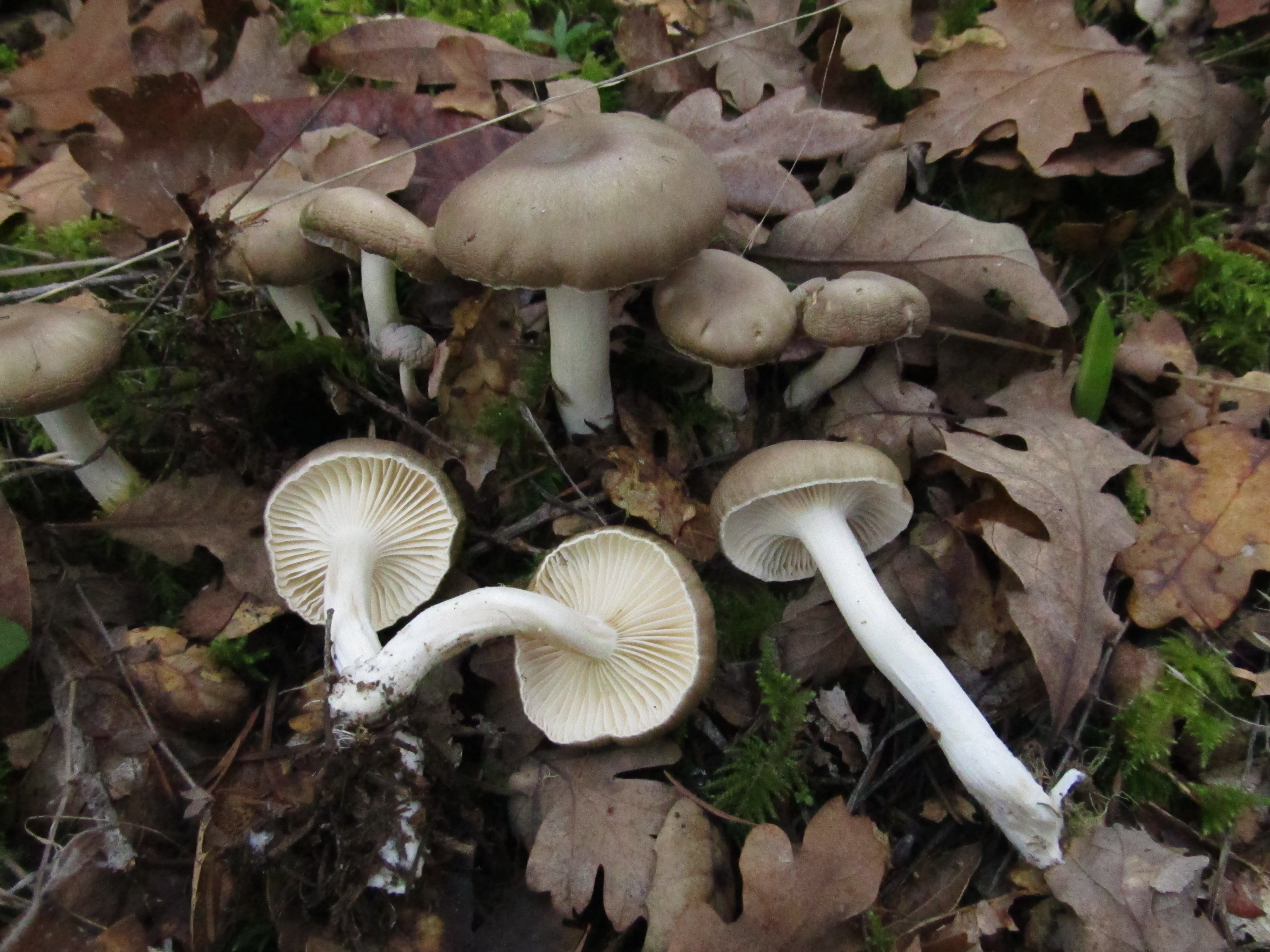 Fruit bodies of the agaric fungus Hygrophorus agathosmus. Specimens found in Bohemia Ranch, Occidental, California, USA.